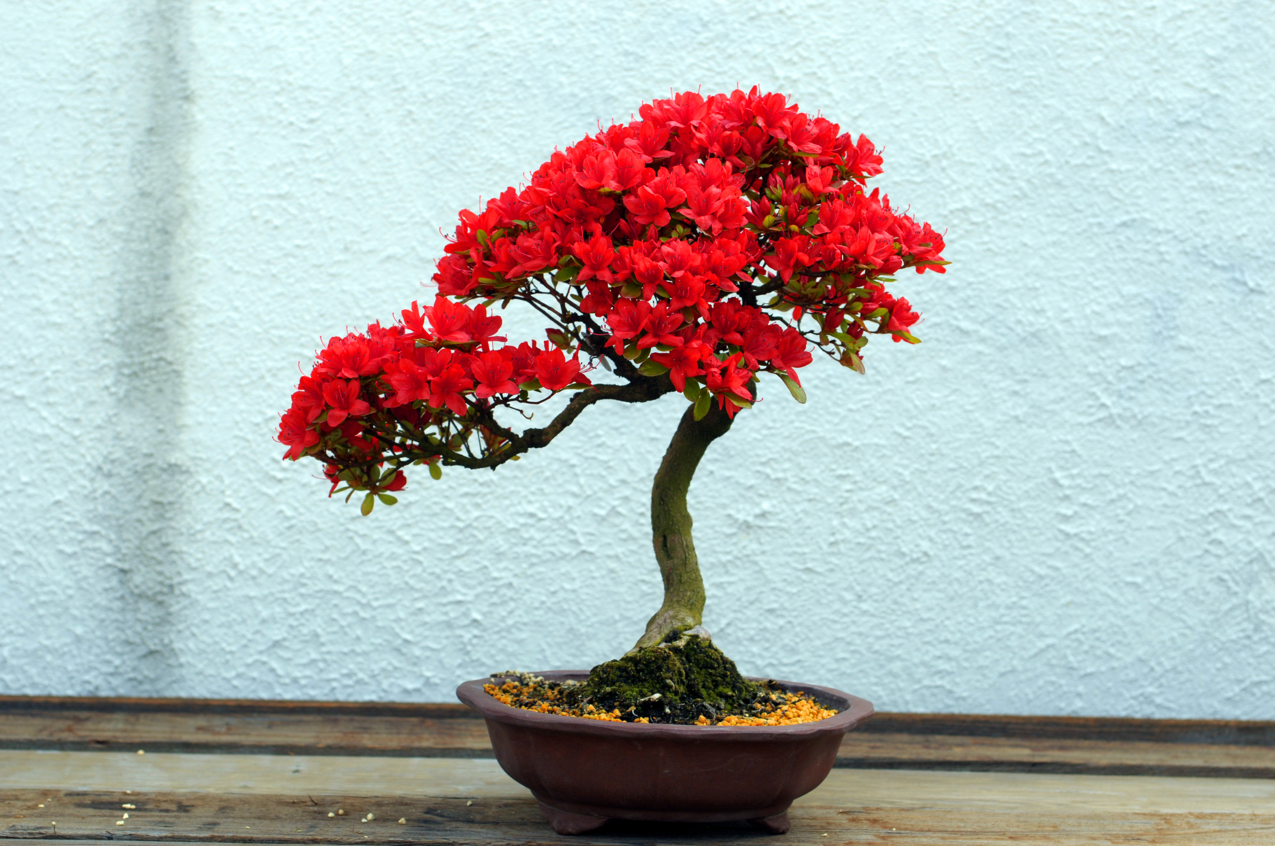 Kurume Azalea Bonsai in Bloom ( in training since 1982), US National Aroberetum